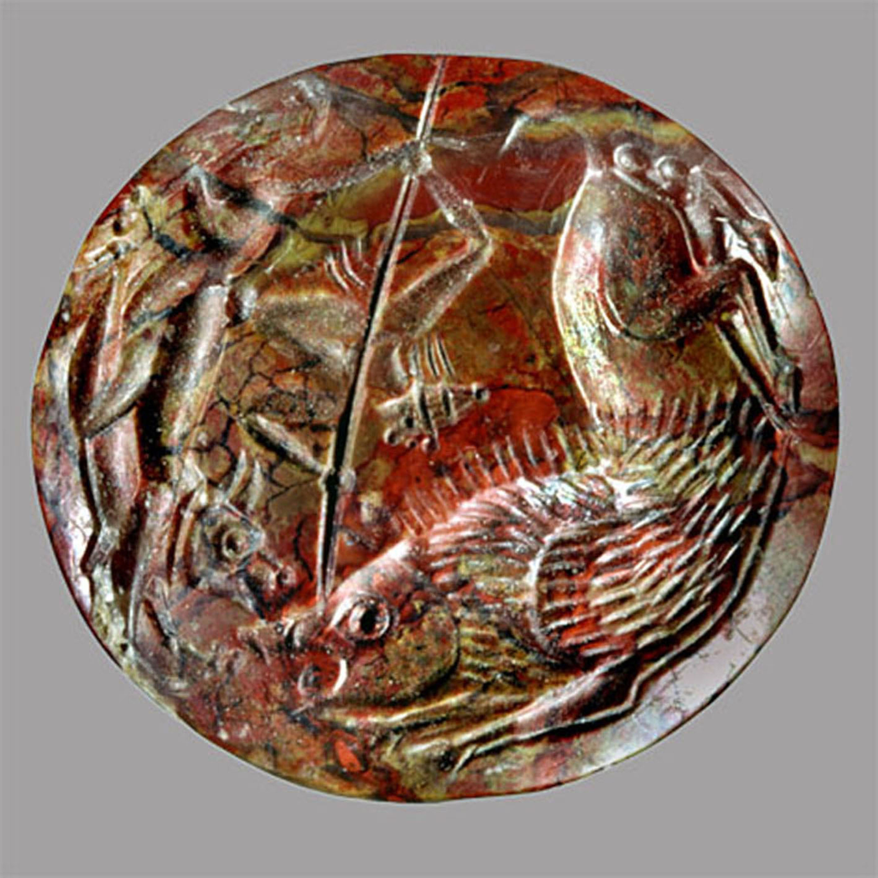 ancient minoan seal showing pig (original)